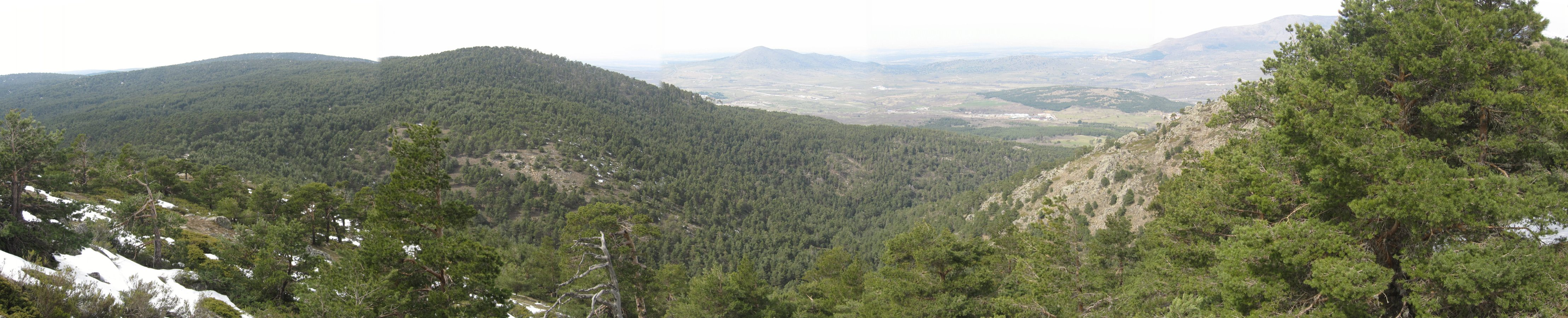 Malagón mountain range seen from Cueva Valiente (section of Guadarrama mountain range, Central Spain).